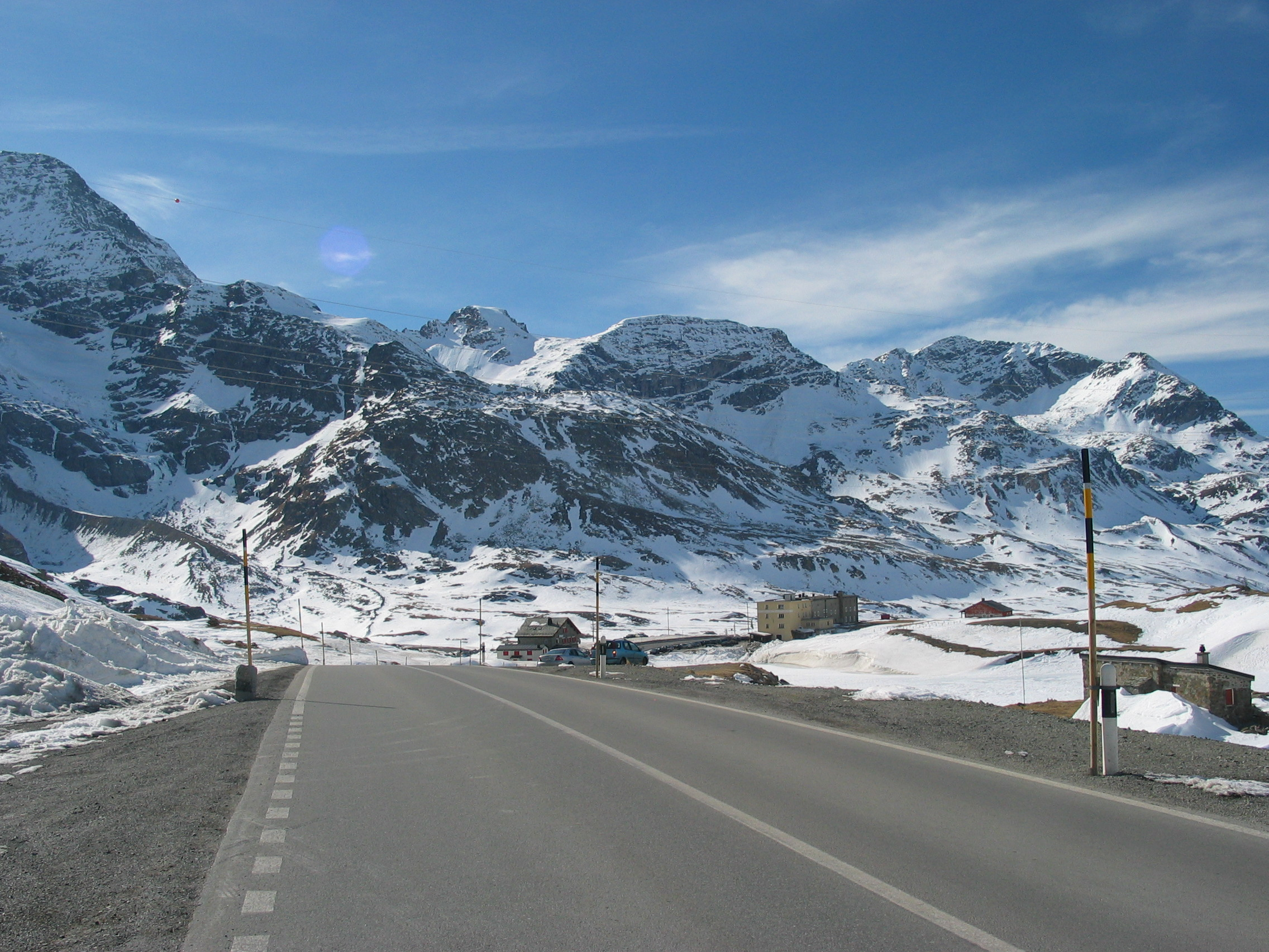 Looking down on Ospizio Bernina, Switzerland.